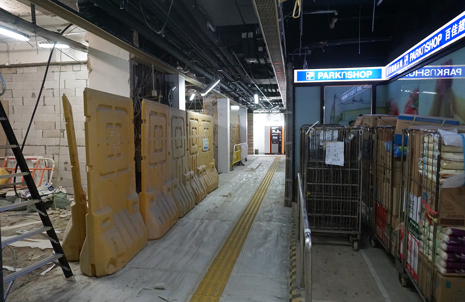 Hing Man Shopping Centre in Chai Wan, Hong Kong.